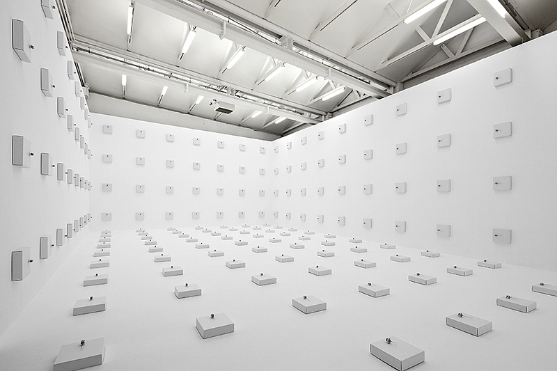 198 prepared dc-motors, wire isolated, cardboard boxes 30x30x8cm⎢Zimoun 2012. Installation view: CAN, Neuchatel, Switzerland